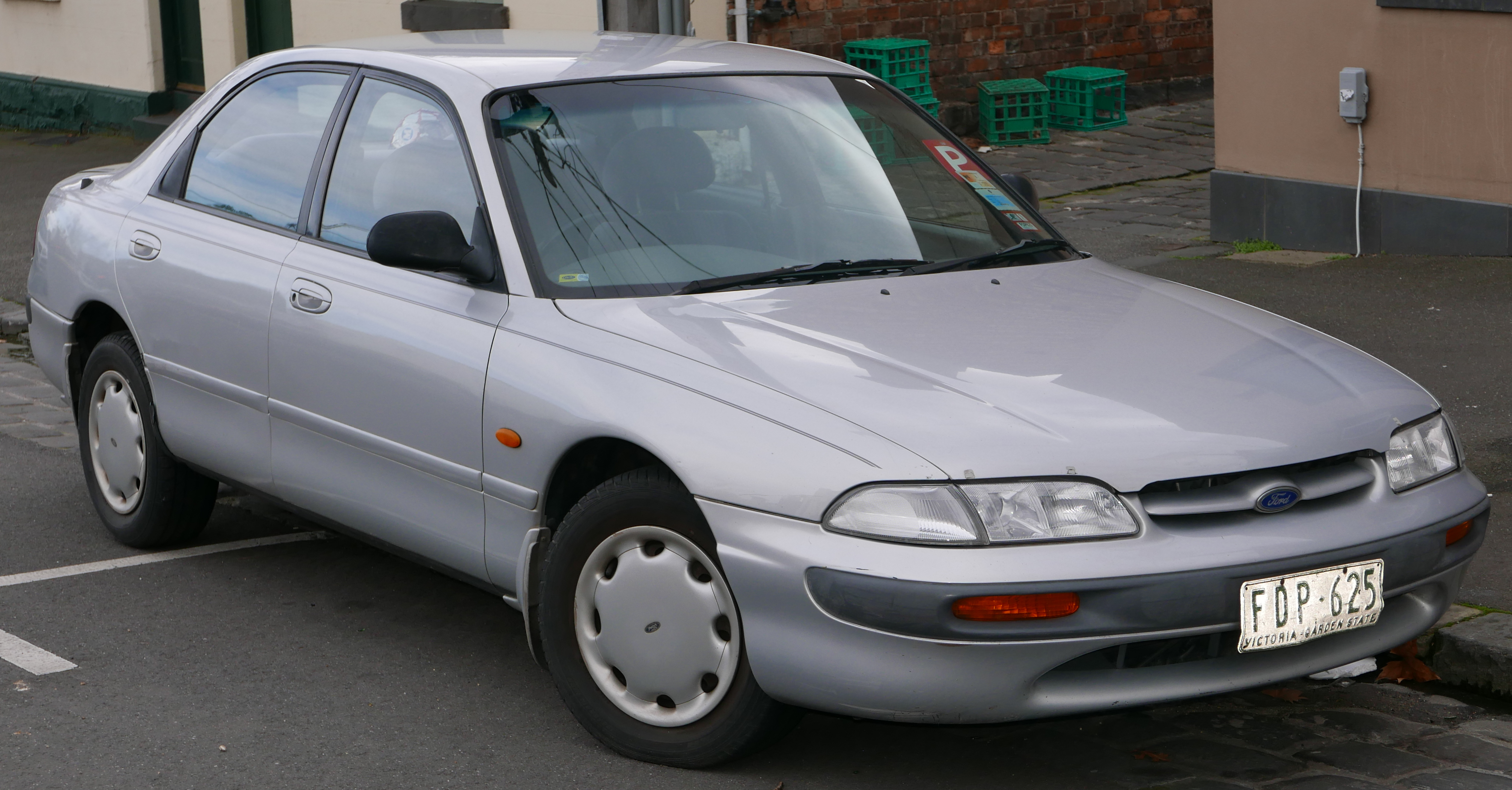 1993 Ford Telstar (AX) GLX sedan. Photographed in West Melbourne, Victoria, Australia. Vehicle registration enquiry results Jurisdiction Victoria Registration FDP625 Chassis code JC0AAASHVNNT46934 Engine code SHVNNT46934 Compliance date 1993-01 Year of manufacture 1993